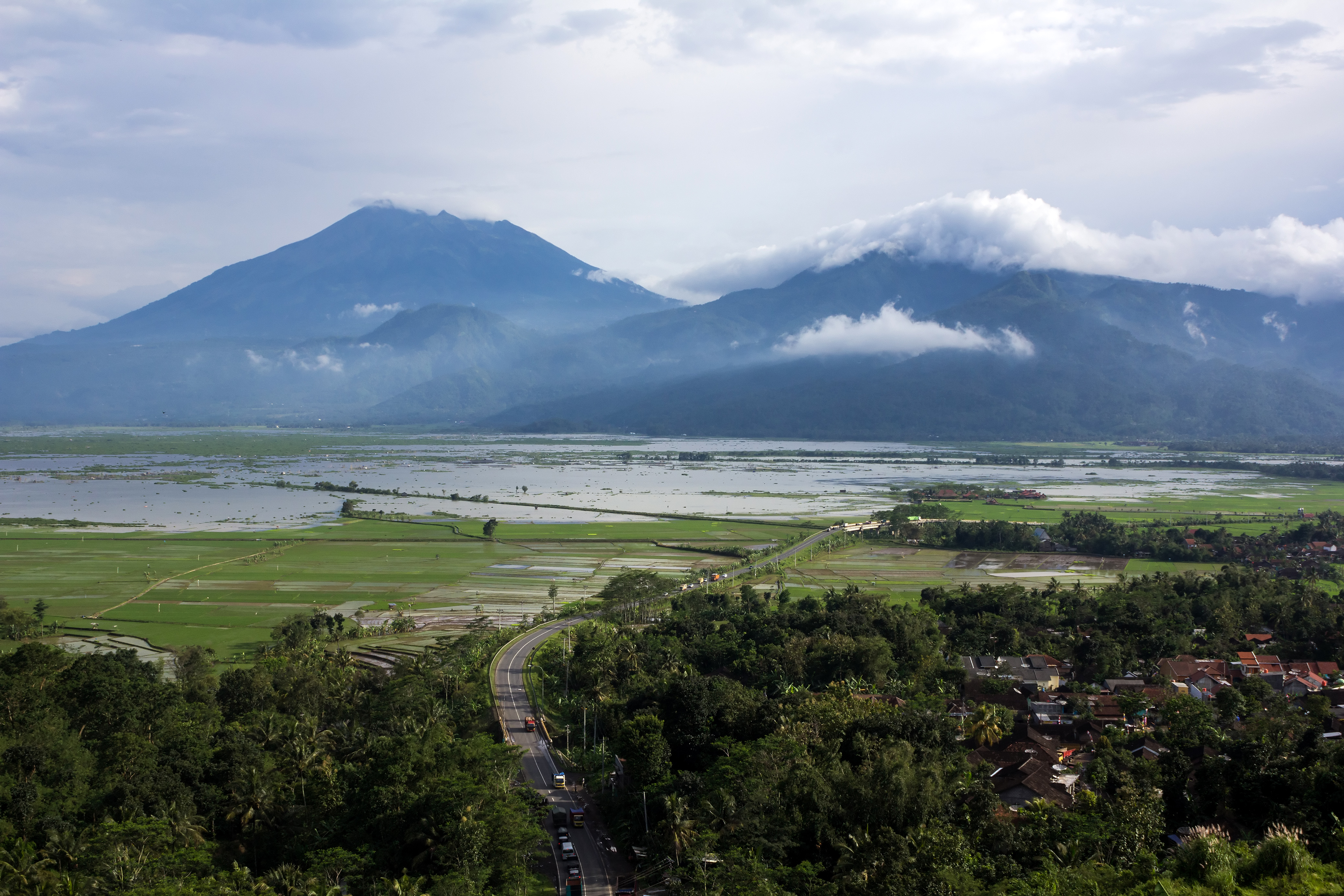 Ambarawa Bypass Road from Eling Bening, 2017-03-15. In the background are Lake Rawa Pening and Mount Merbabu (left) and Mount Telomoyo